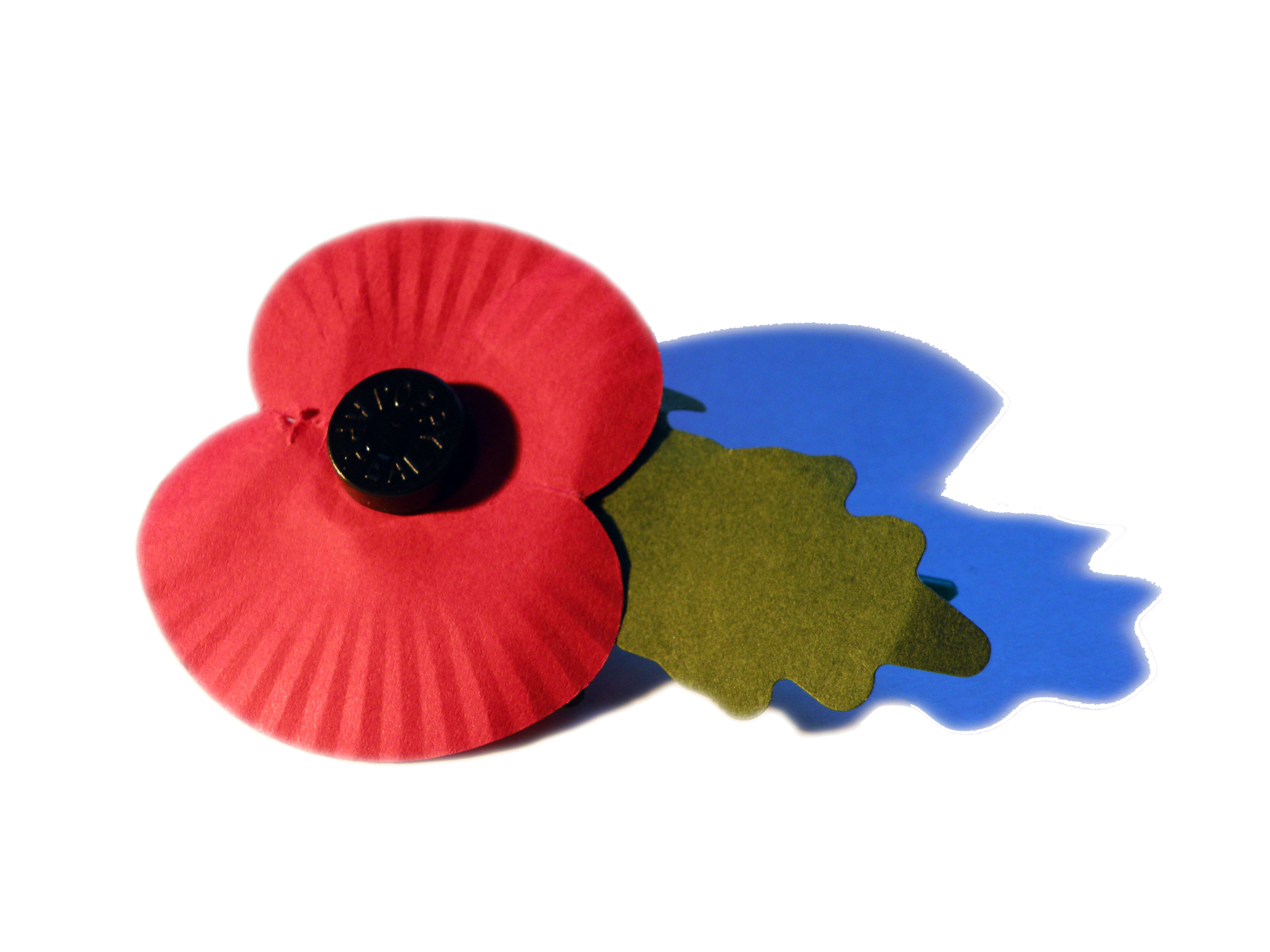 The Poppy Appeal Poppy, purchased in Northern Ireland.